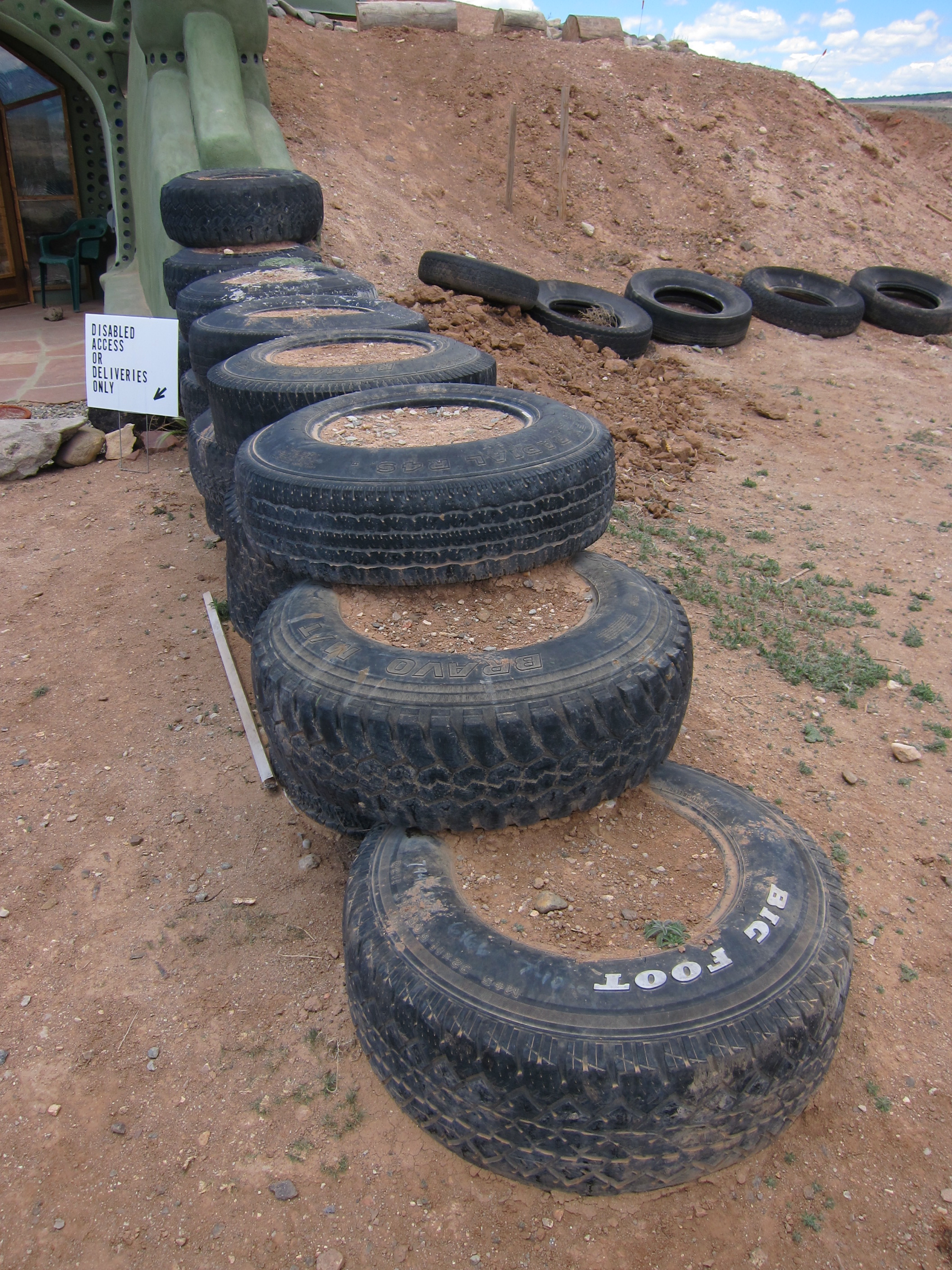 Tire Bricks Earthship